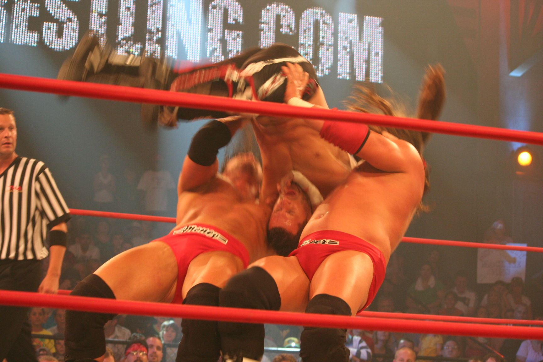 Professional wrestling tag team Beer Money, Inc. performing a double suplex on Alex Shelley at a TNA Impact! taping